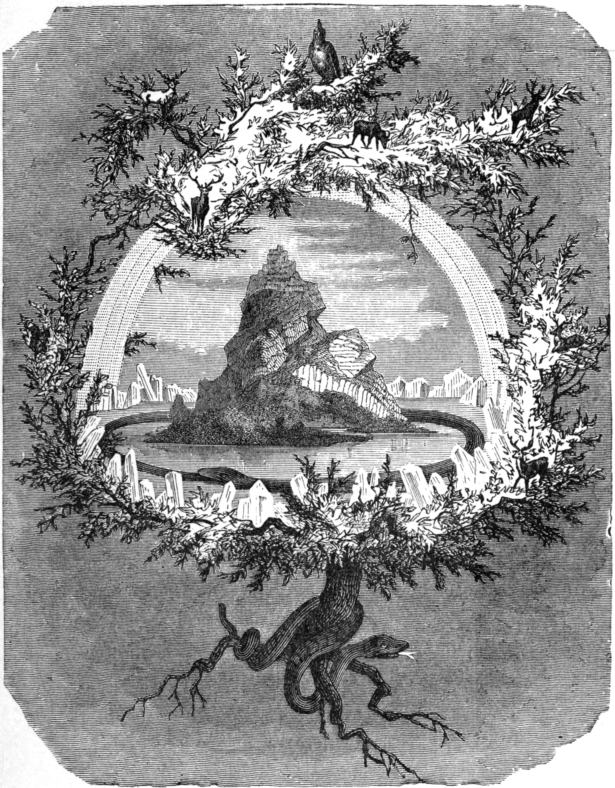 Caption reads "The Ash Yggdrasil". The world tree Yggdrasil and some of its inhabitants.